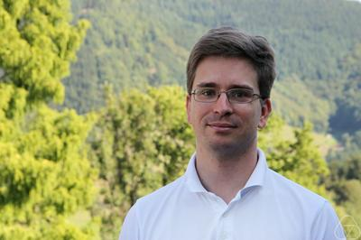 picture of Simon Brendle